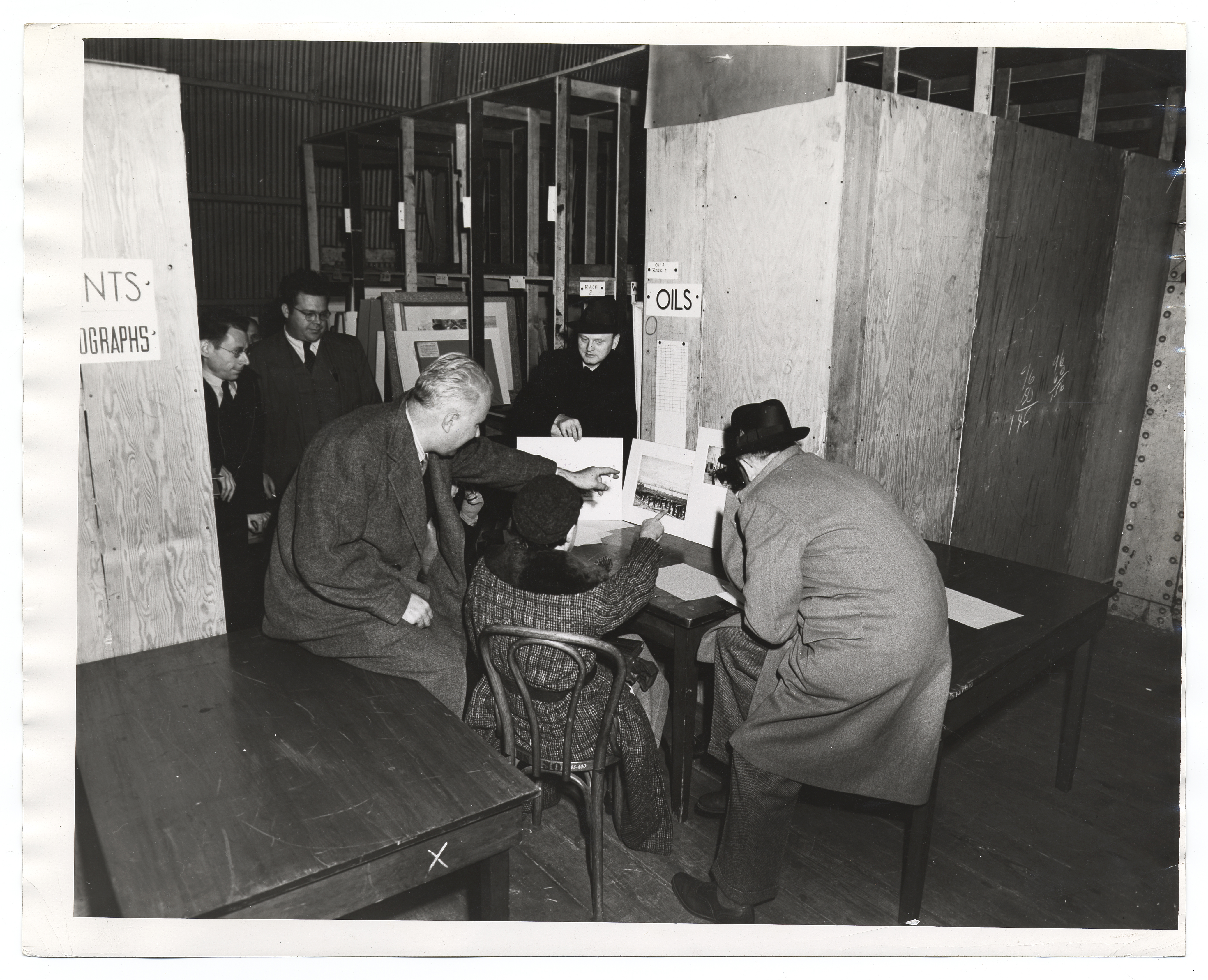 Identification on verso (handwritten): Adolf Dehn; Elizabeth Old and ?; Reginald Marsh facing camera. Idenfication on verso (handwritten and stamped): New York City W.P.A. Art Project; Photography Division; 110 King Street Negative No.: 5353-18.